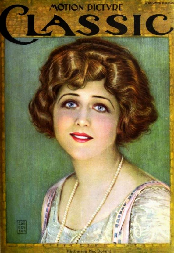 Actress Katherine MacDonald on the cover of the Motion Picture Classic, from an advertisement from an insert after page 6 of the July 23, 1921 Exhibitors Herald. Cover art by Benjamin Eggleston (1867-1937).[1]